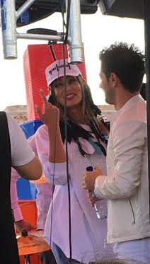 Mukuchyan on stage (2018 Armenian Protests)